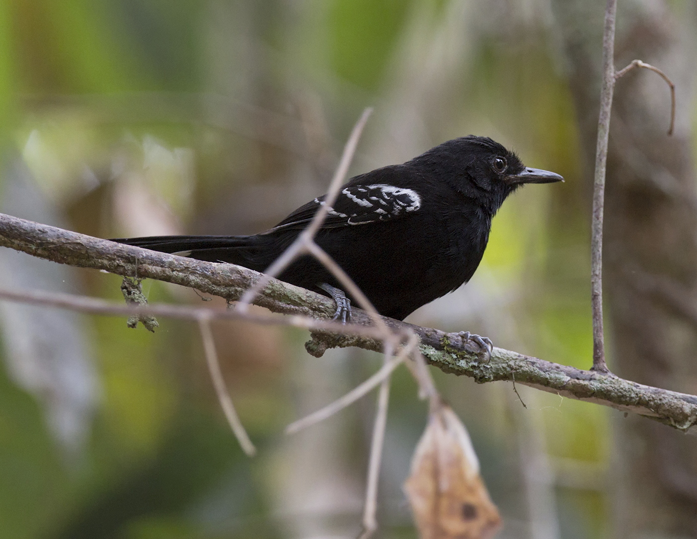 Bananal antbird (male) at Canguçu ecological reserve - Pium - TO -Brazil